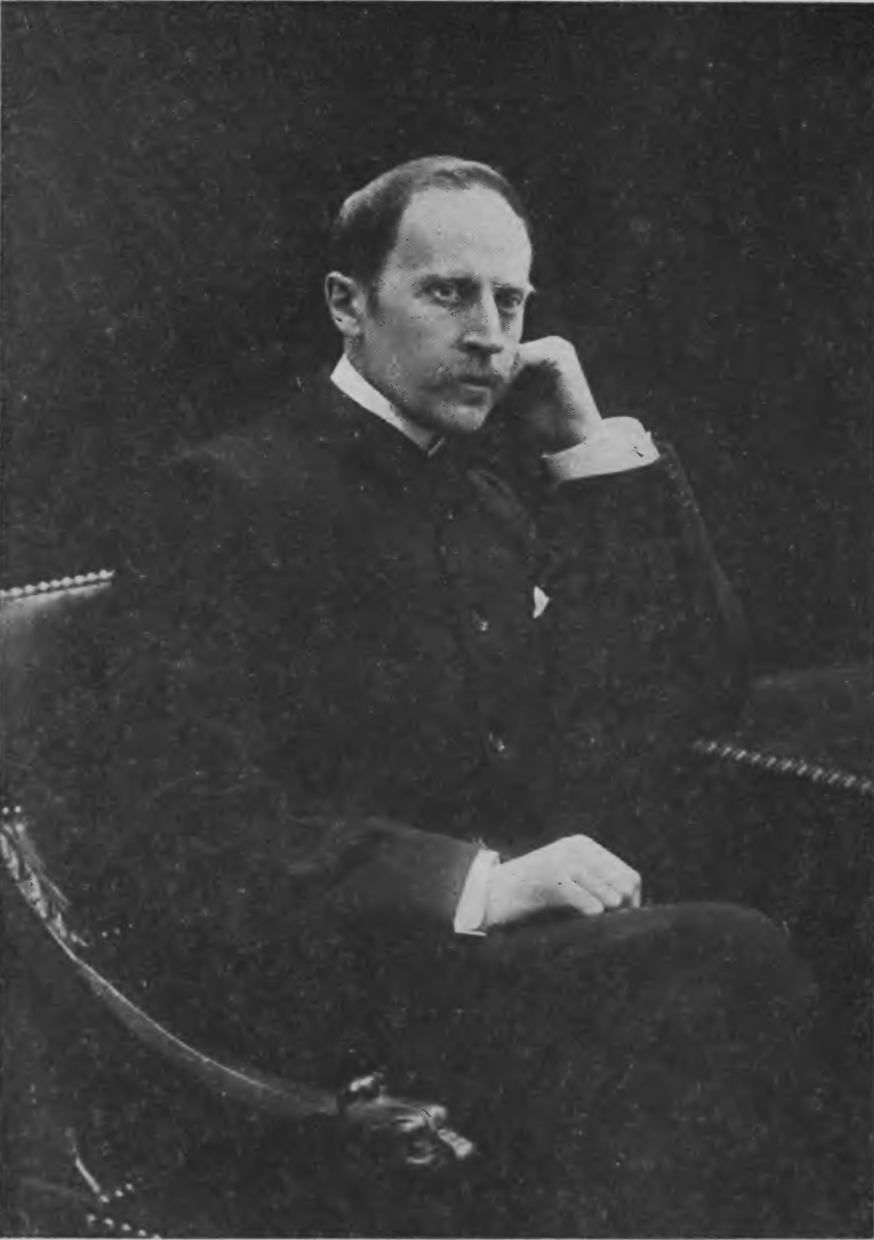 Romain Rolland